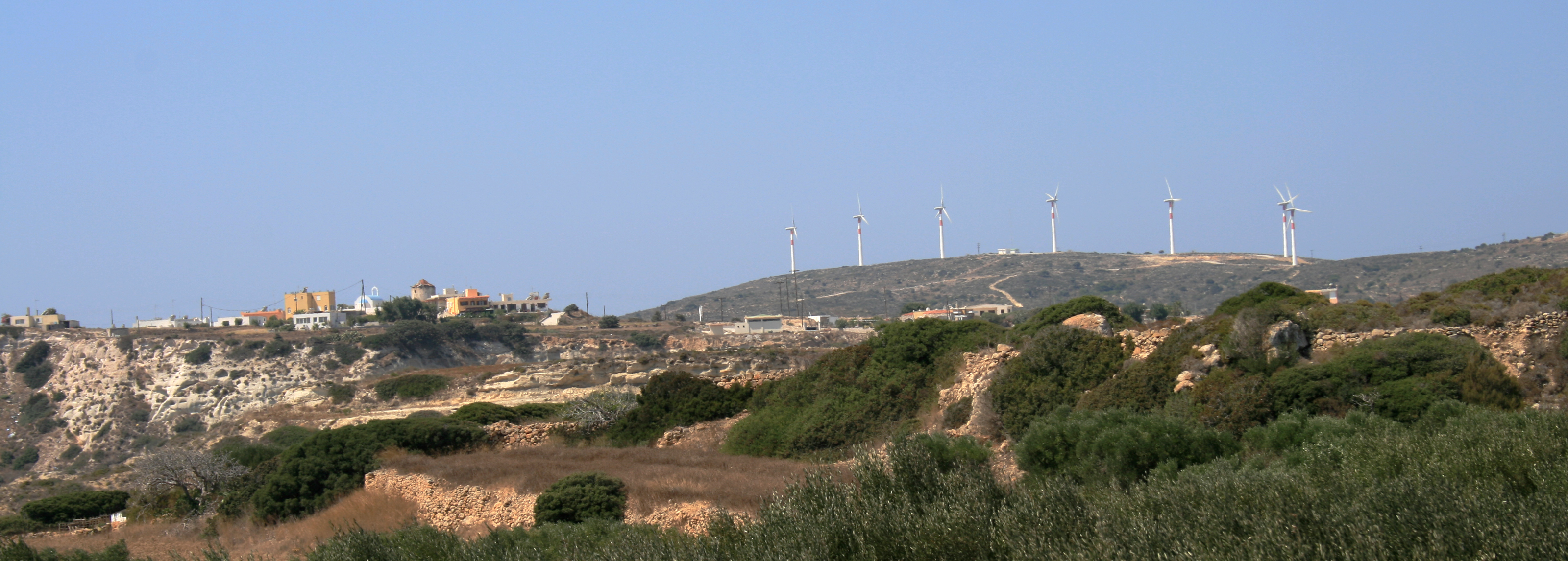 Wind power electric power plants near town Kefalos on Kos island (Greece)